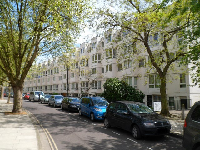 Warwick Crescent London W2